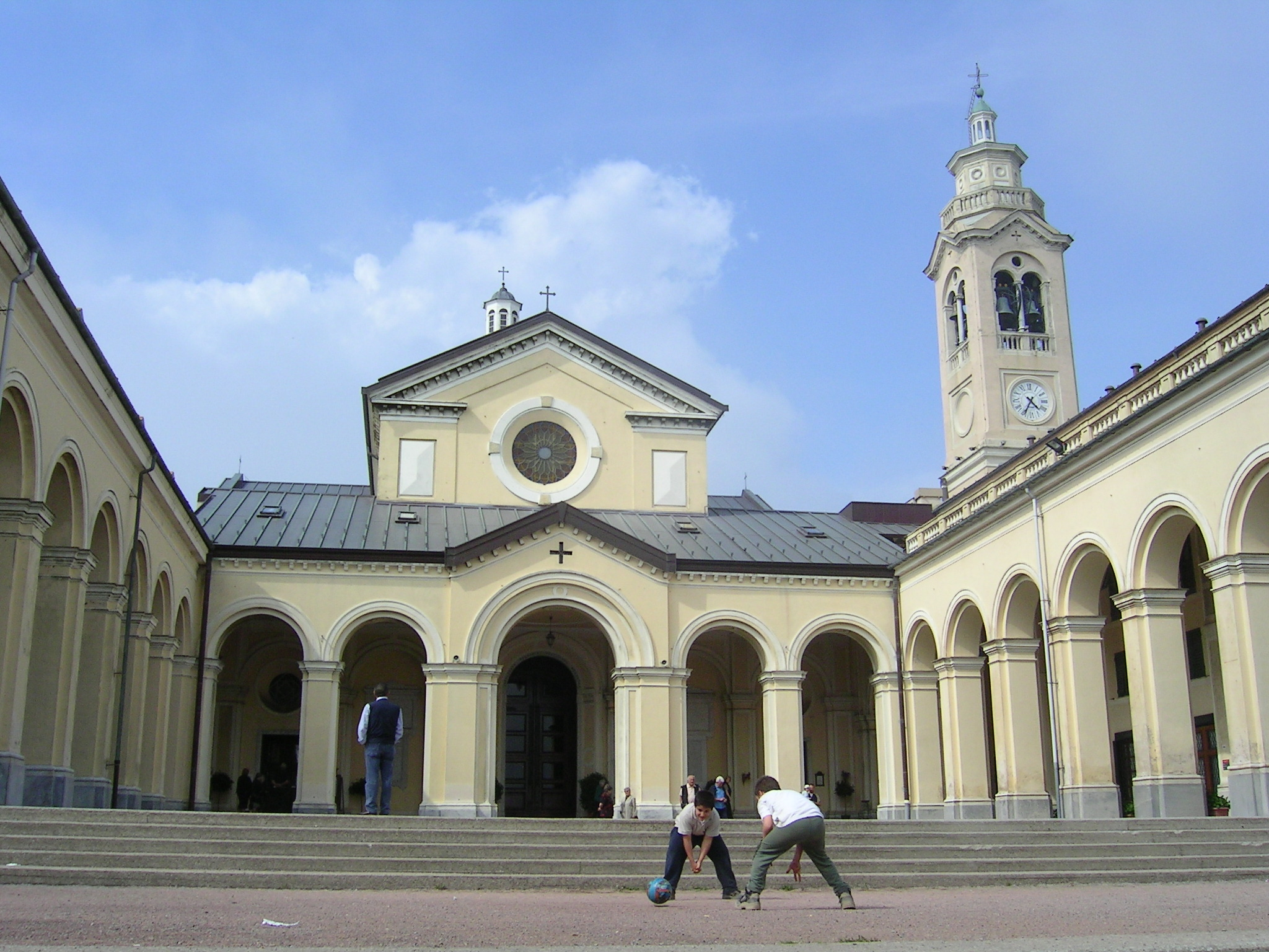 Santuario Mariano - Nostra Signora della Guardia - Genova (GE) - Italy